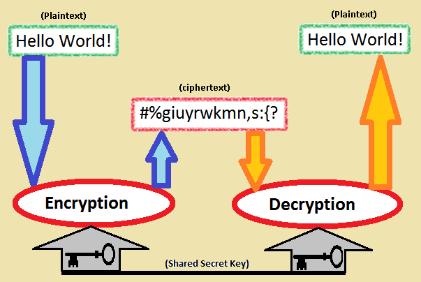 Cryptography - This is how encryption and decryption concept works.